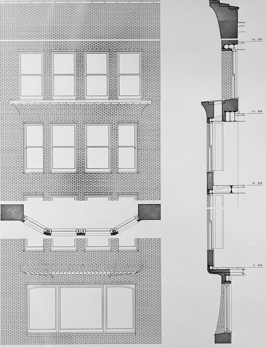 Wonadnock Building | Monadnock Block , 53 West Jackson Boulevard, Chicago, Cook County, IL. ELEVATION, PLAN AND SECTION OF TYPICAL BAY SHOWING SECOND, THIRD, FIFTEENTH AND SIXTEENTH FLOORS. PHOTOCOPY OF MEASURED DRAWING BY DIETER SENGLER. HABS ILL,16-CHIG,88-9.